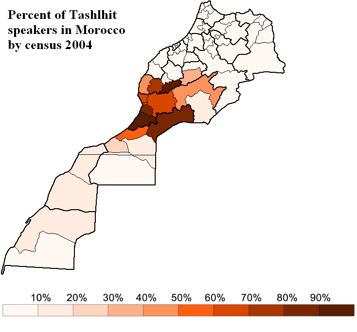 Percent of Tashlhit speakers in Morocco by census 2004 Based on data found Here